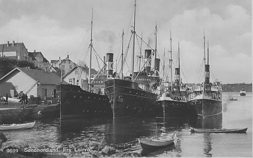 Taken at Leirvik, Stord in 1930. Closest to the quay is Rosendal, next to her is Ullensvang, Søndhordland and Hordaland, all from HSD.